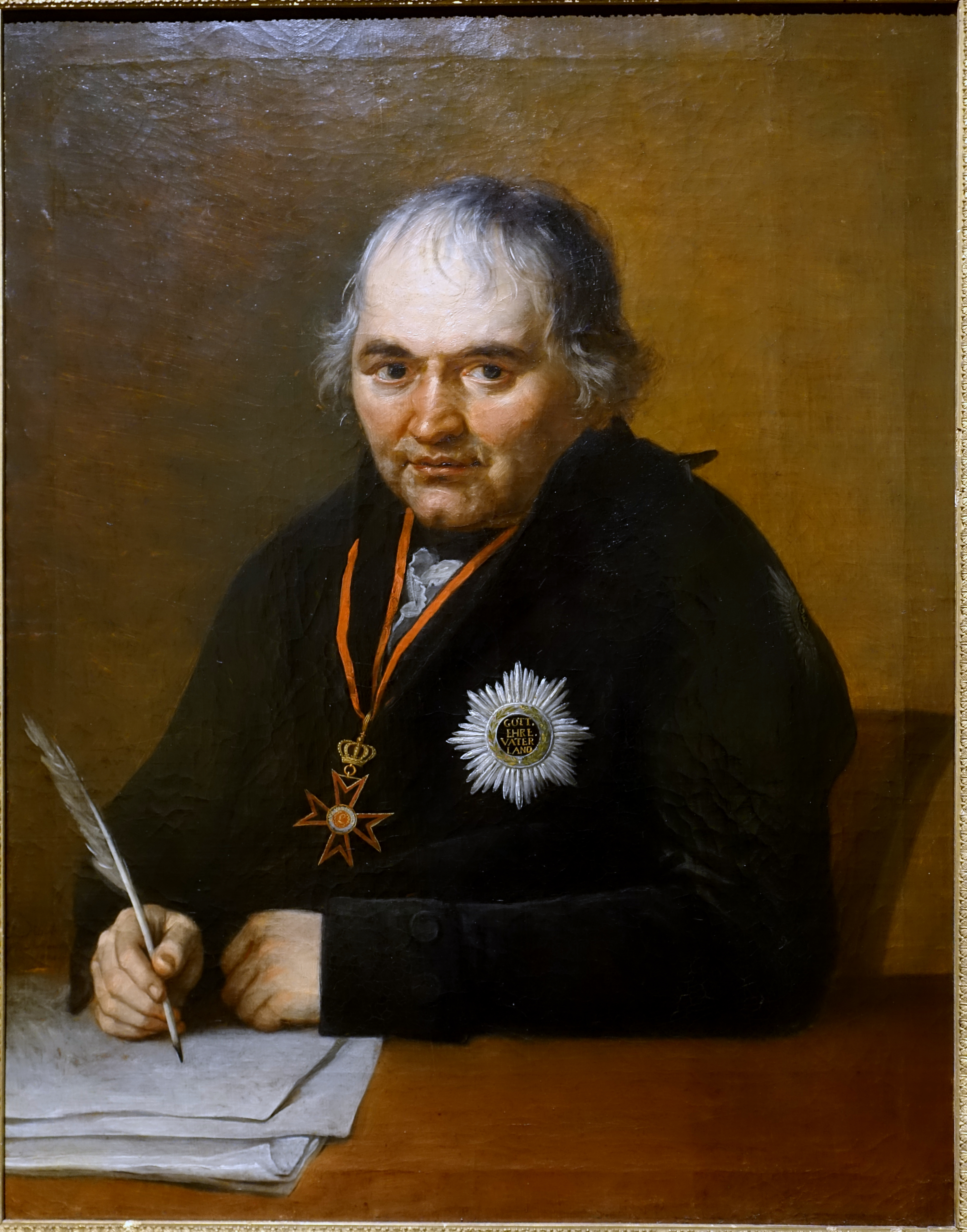 Exhibit in the Hessisches Landesmuseum Darmstadt - Darmstadt, Germany.